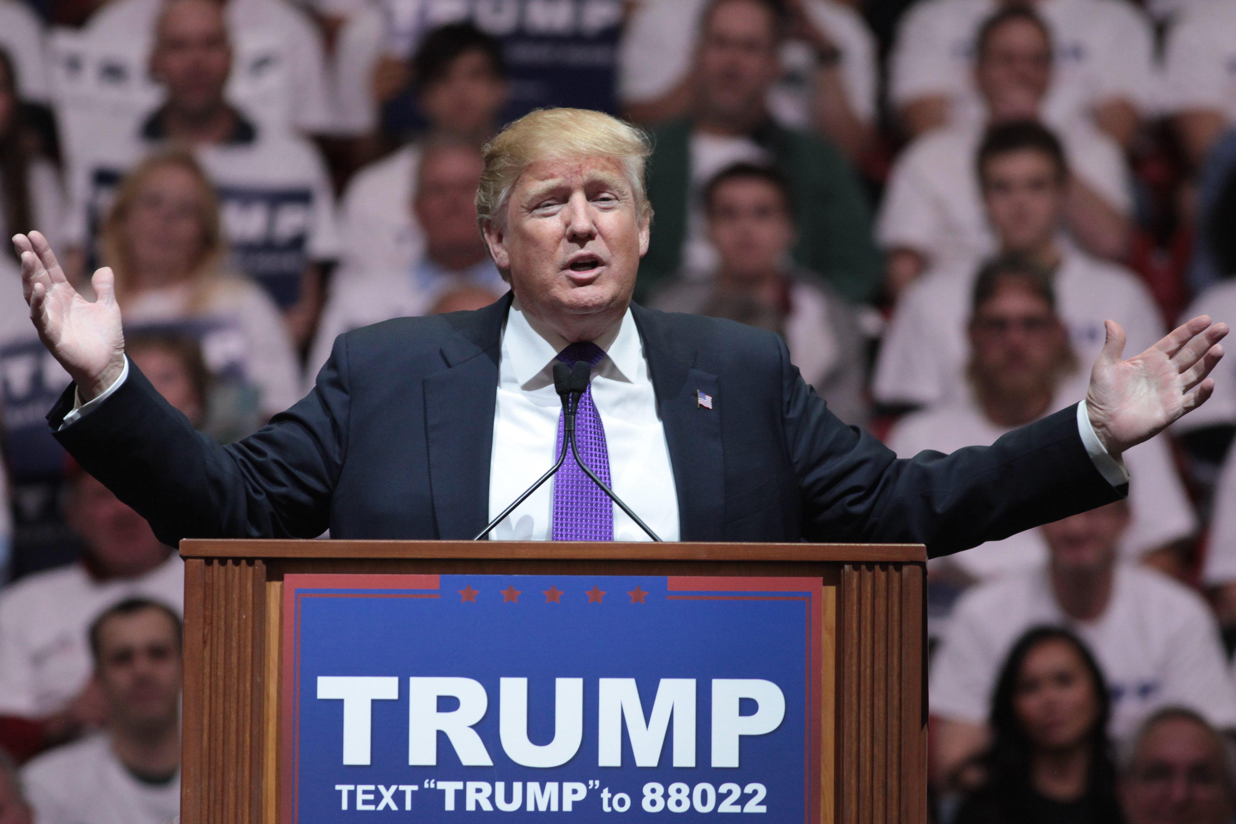 Donald Trump speaking with supporters at a campaign rally at the South Point Arena in Las Vegas, Nevada.